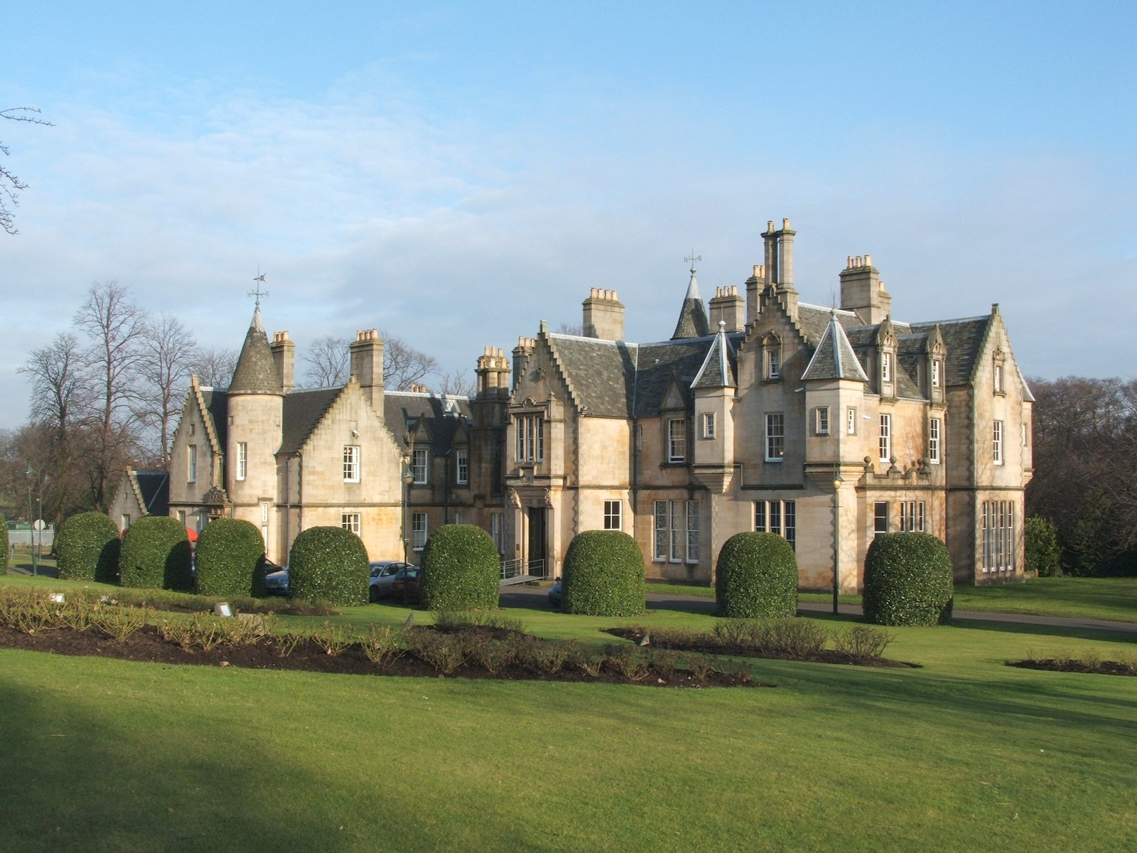 Tollcross House This mansion house, set within what is now Tollcross Park, was designed by architect David Bryce, and built by James Dunlop in 1848. From 1905 to 1973, it was the home of the Children's Museum (a branch of the Kelvingrove Museum), but the building later fell into disrepair.